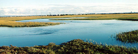 National Wildlife Refuge located in the Naval Weapons Station Seal Beach in Seal Beach, California. This view is looking out over the 920-acre (370 ha) salt marsh.